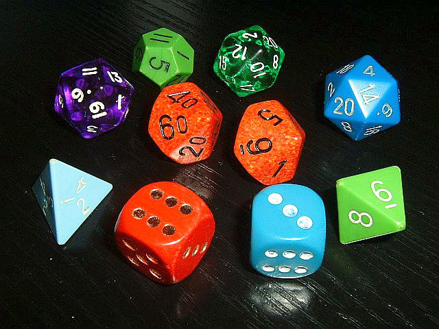 Dice for various games, especially for roleplaying games.